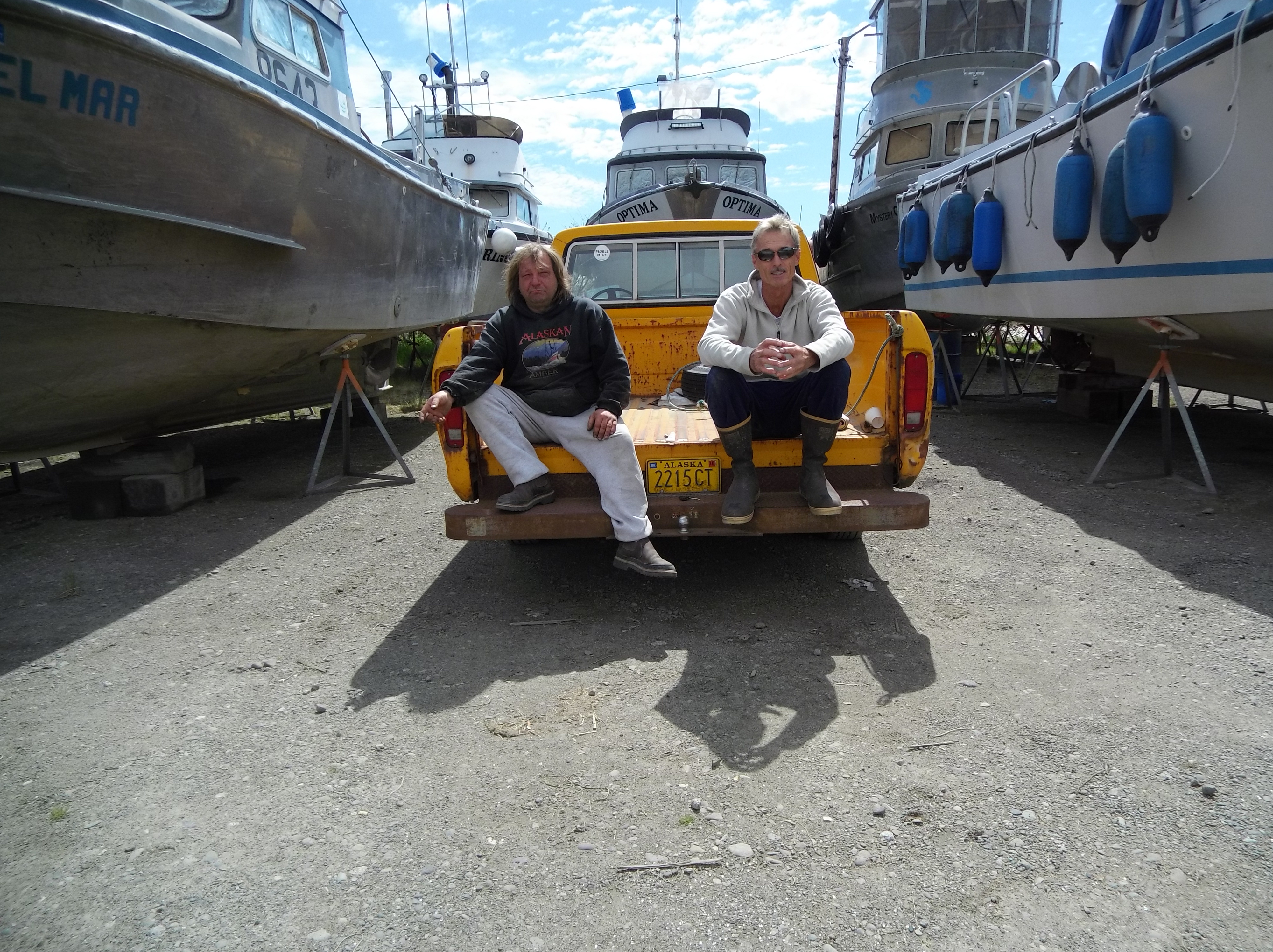 Two stoic Bristol Bay veterans take a break before a long season.